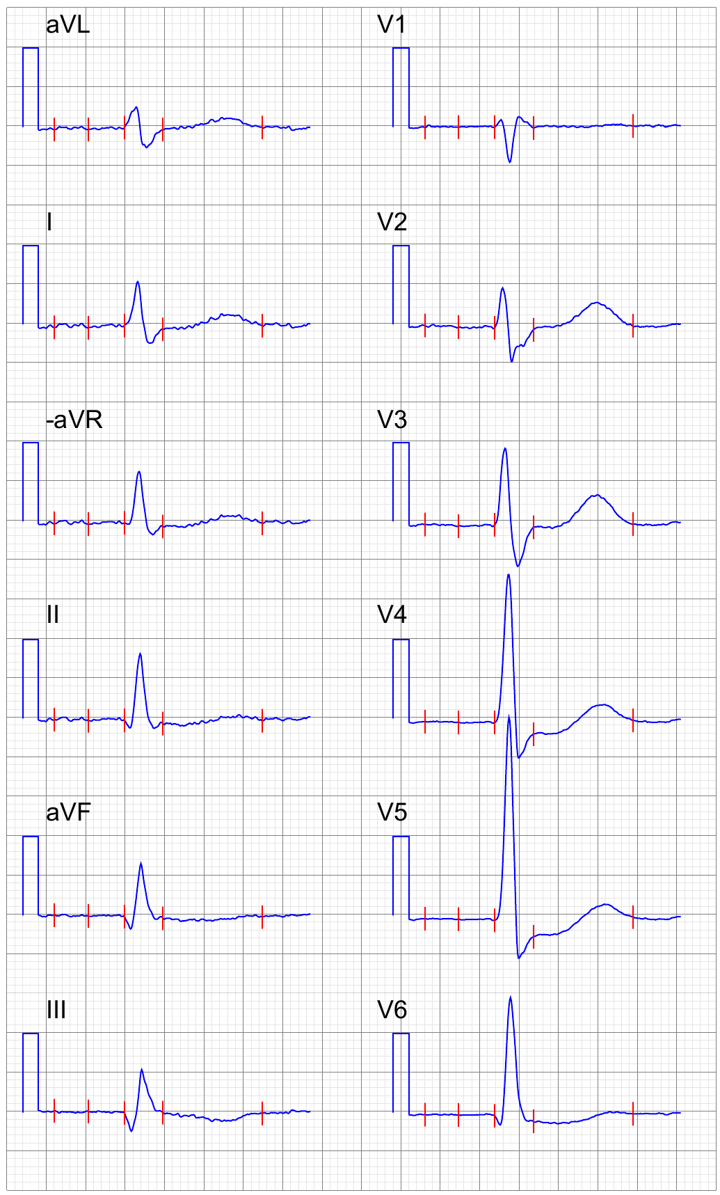 Signal-averaged electrocardiogram from a 77-year-old male taking digoxin for atrial fibrillation. Digoxin-induced ST-depressions are seen mainly in precordial leads V4 and V5.